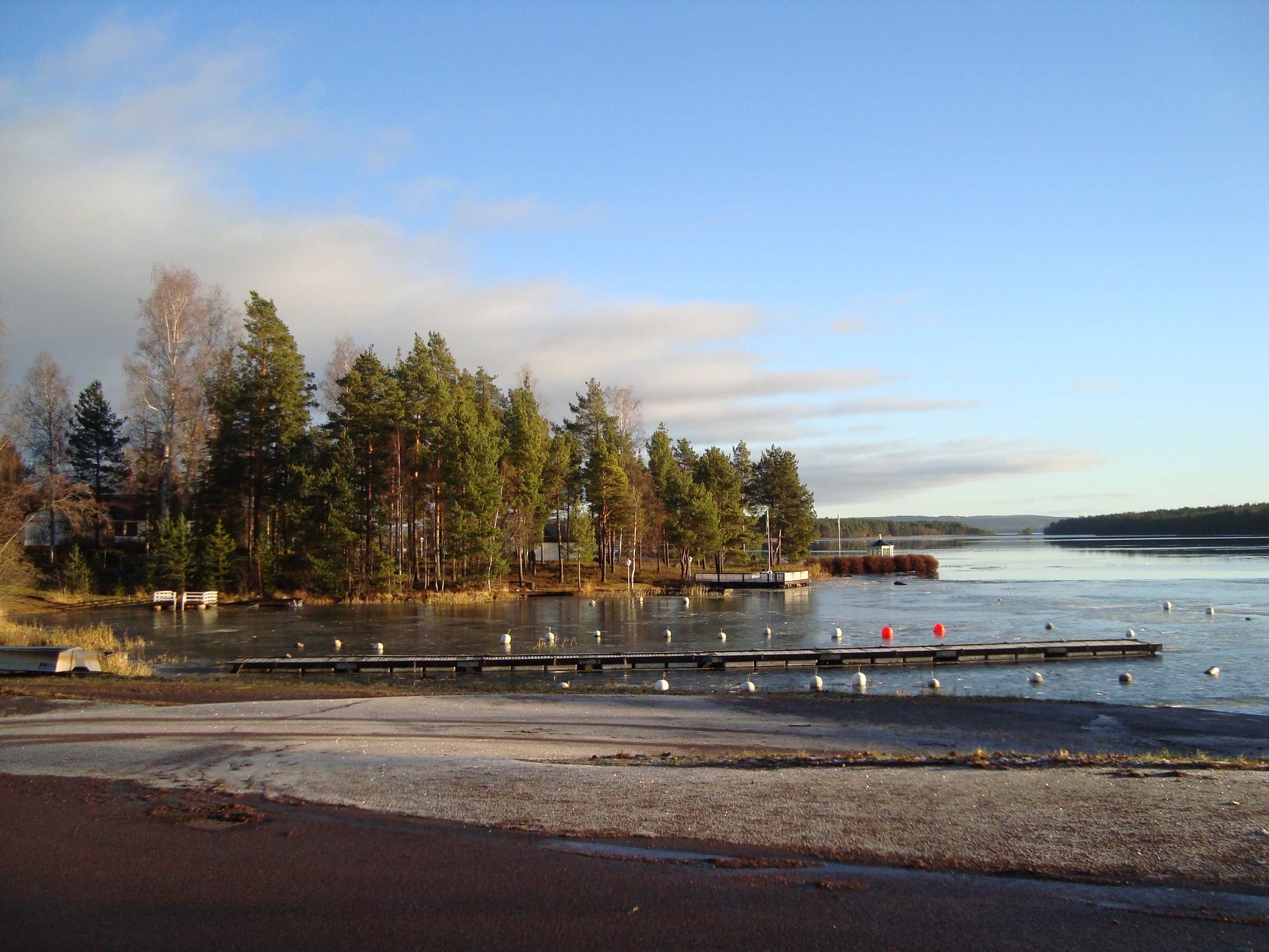 Källviken, a section of (or close suburb to) Falun, in Dalarna County, Sweden. Lake Runn is covered with a thin skin of ice.